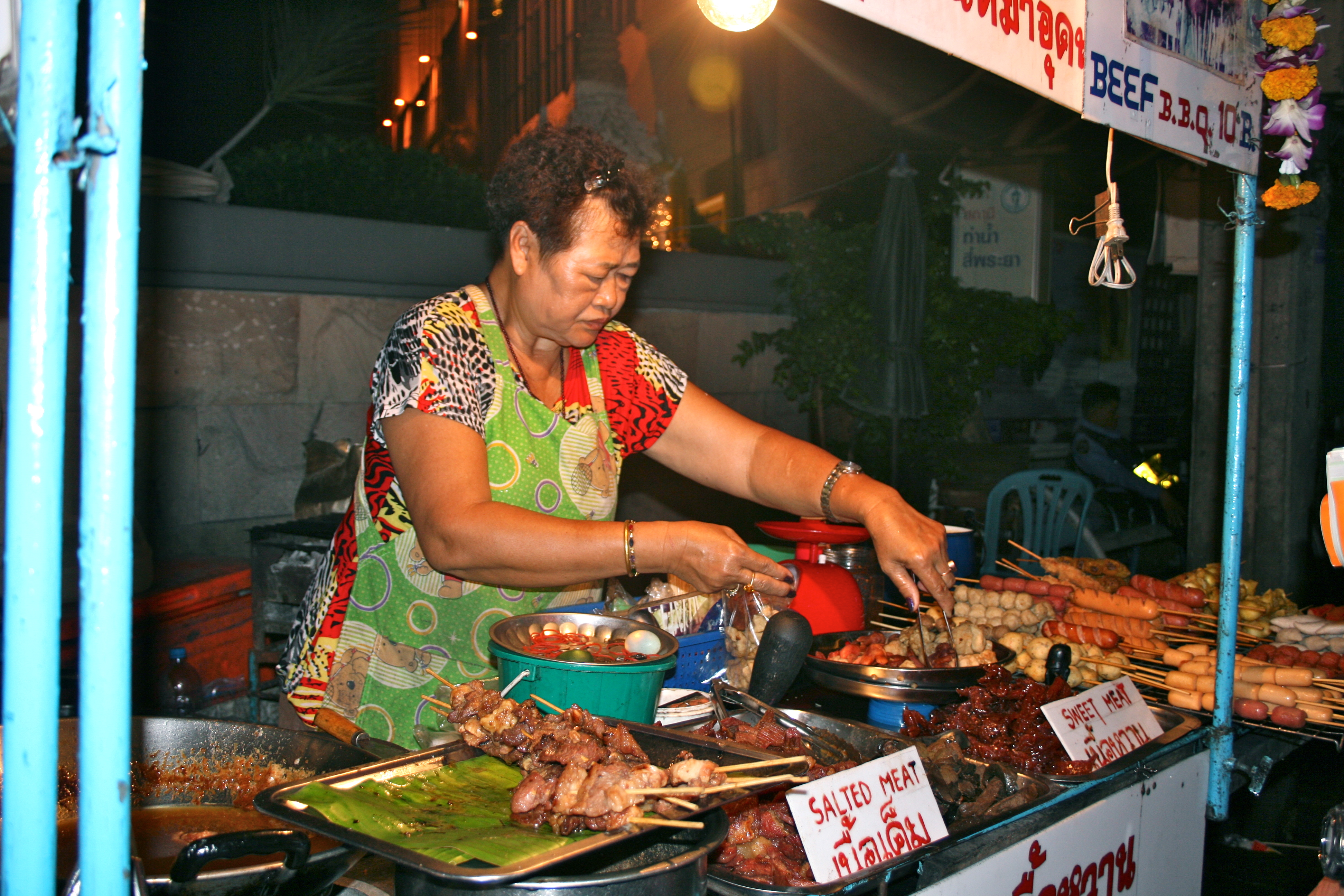 Food stall